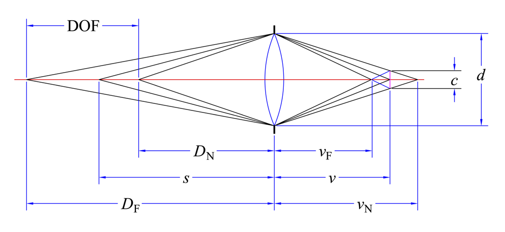 DOF for symmetrical lens